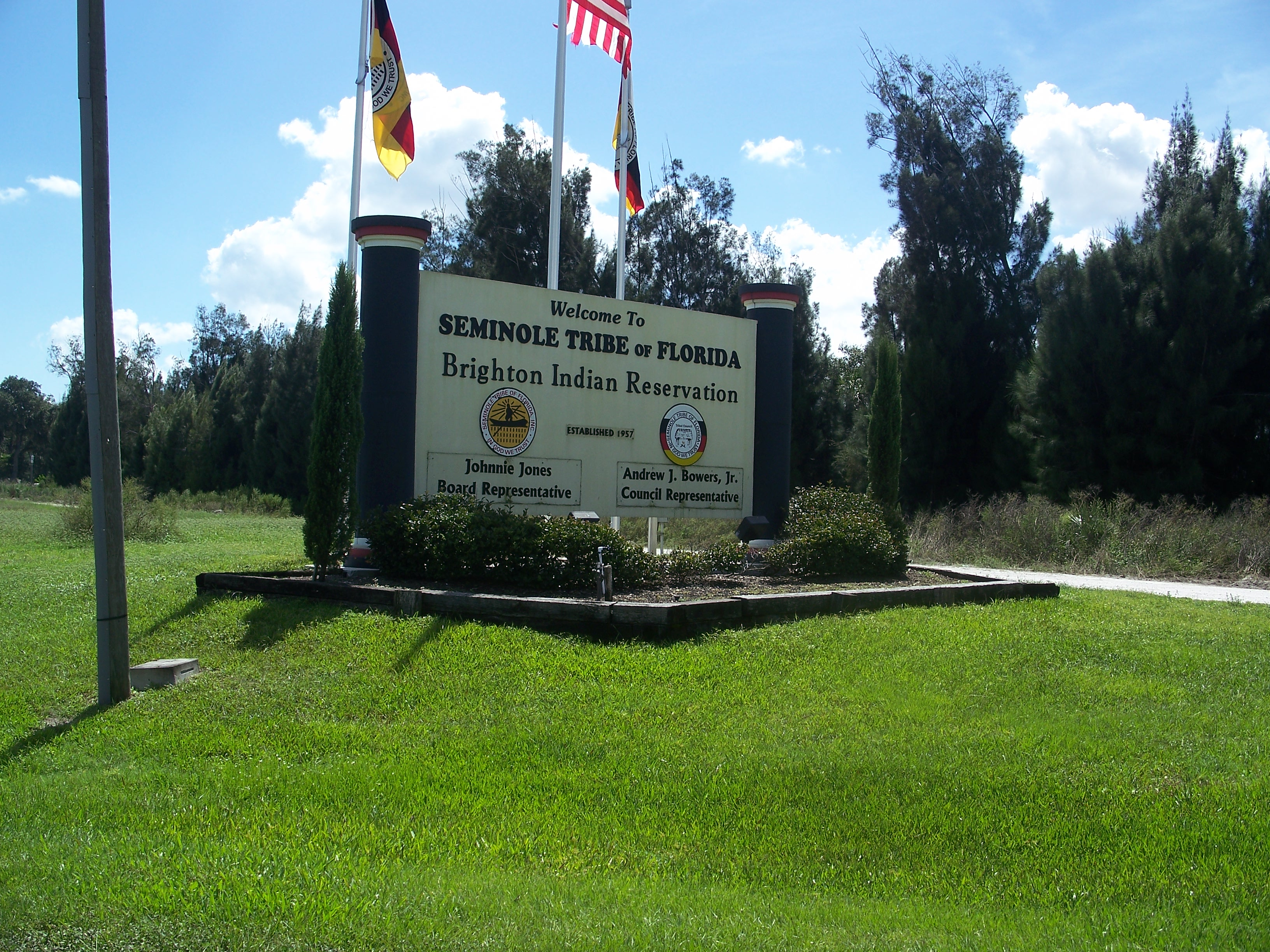 Glades County, Florida: Brighton Seminole Indian Reservation: North entrance on CR 721